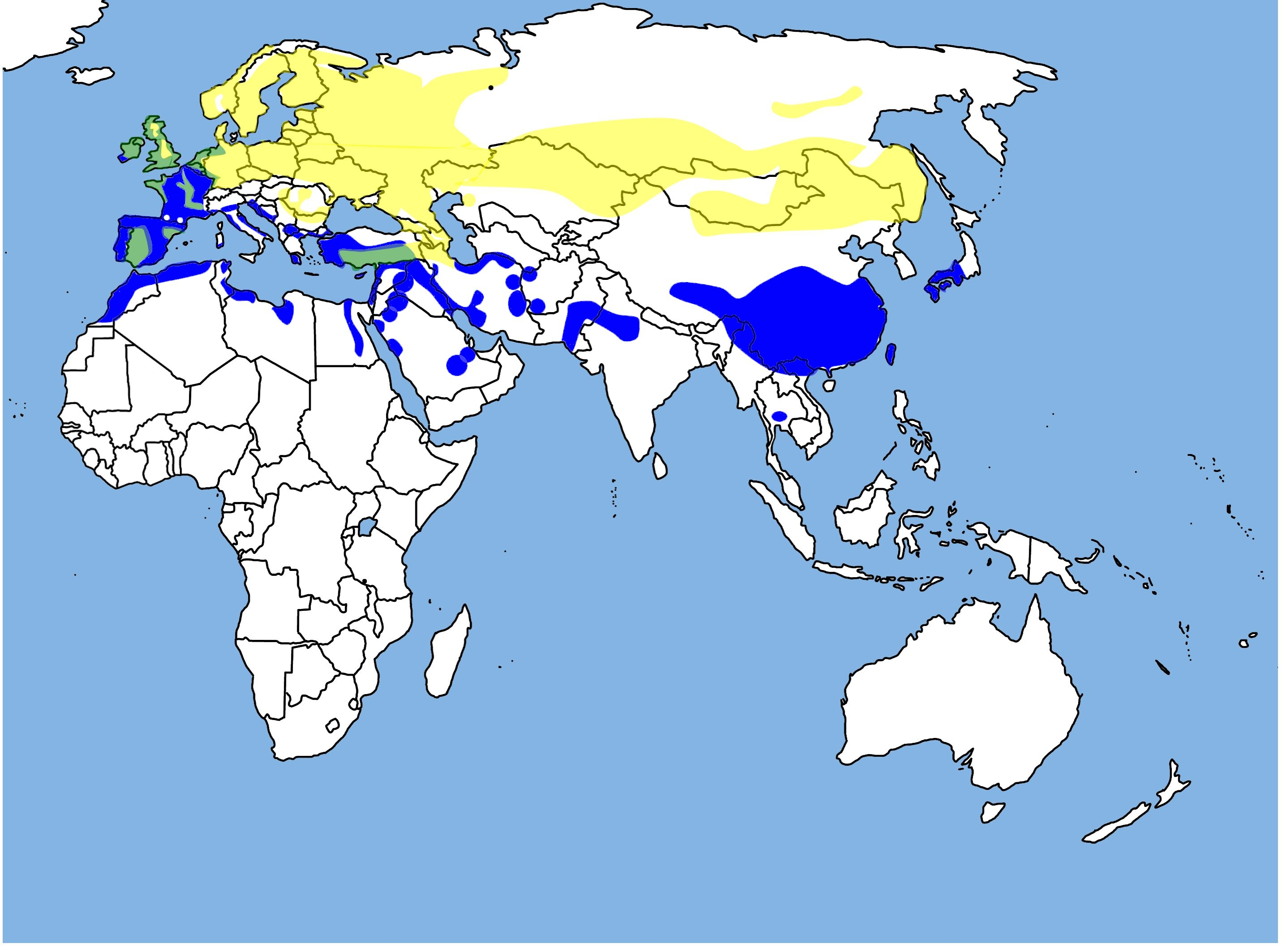 Distribution of Northern Lapwing. Blue: Winter, yellow: breeding, green: resident.